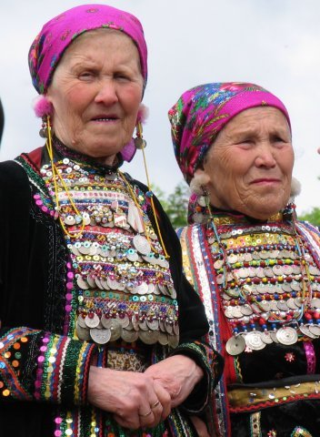 Urals mari people women